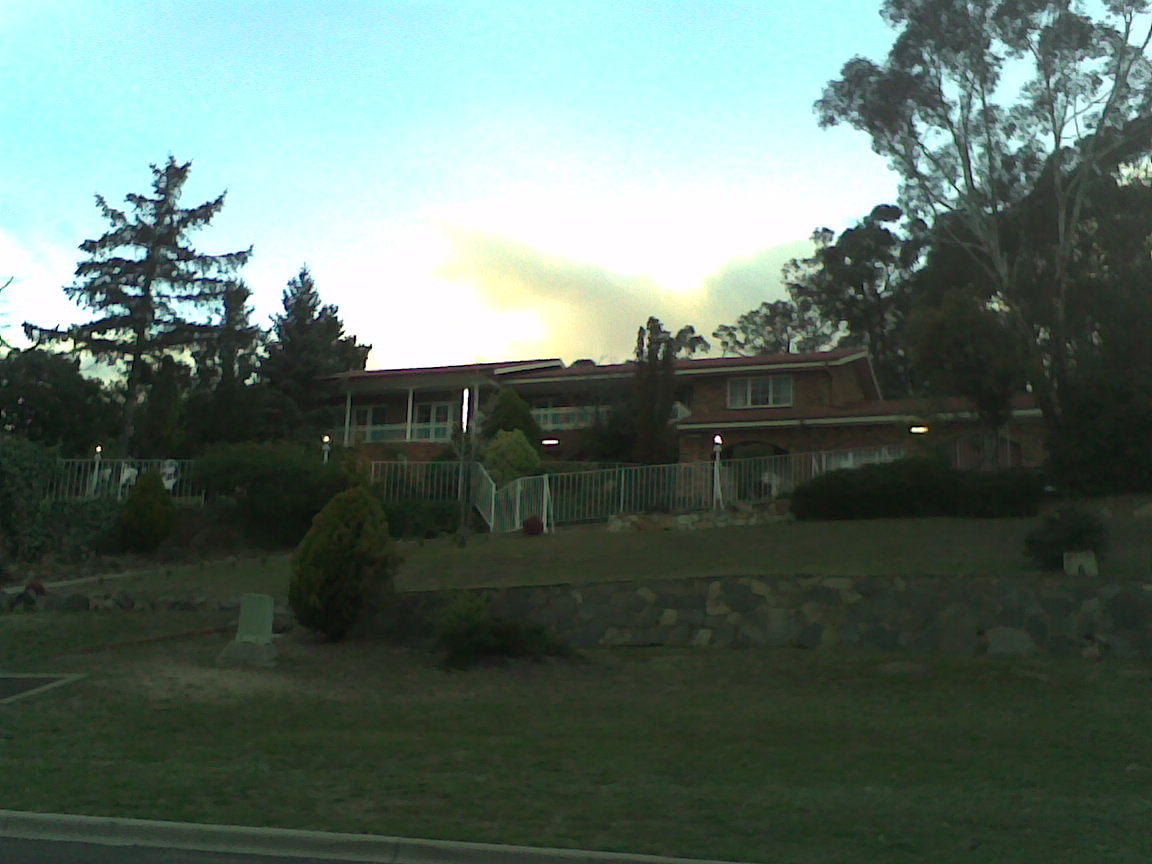 Embassy of Iraq in Canberra